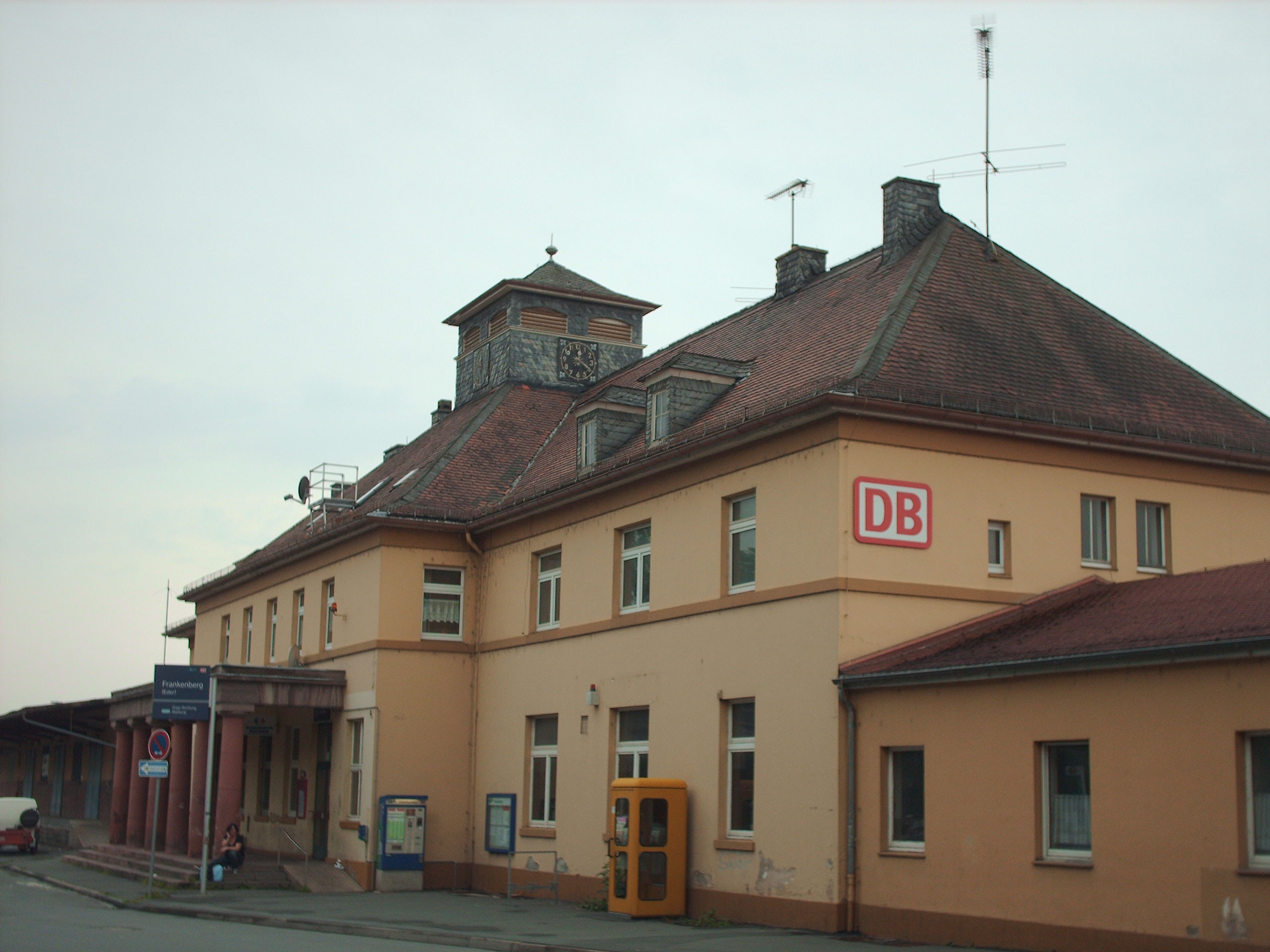 Frankenberg (Eder) station, Frankenberg (Eder), Germany check usage